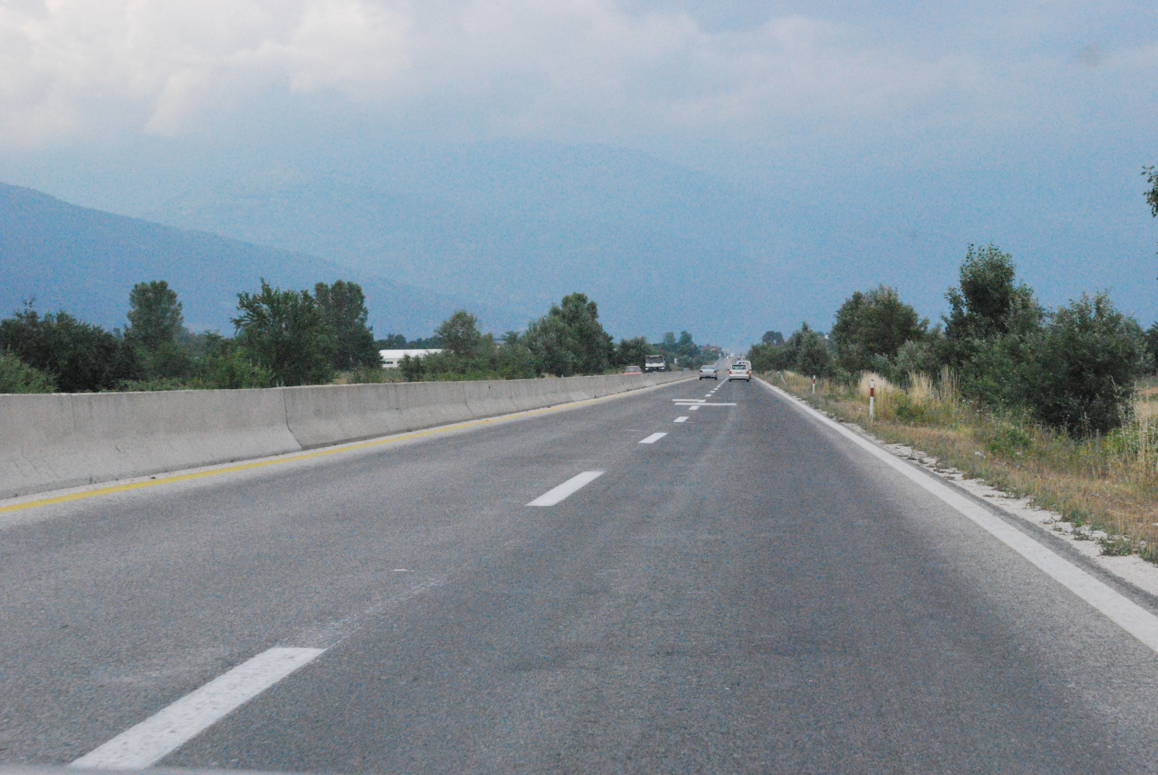 Highway Tetovo-Gostivar, Macedonia